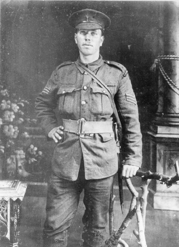 Photograph of Sergeant Robert James Bye, Welsh Guards, British World War I recipient of the Victoria Cross.